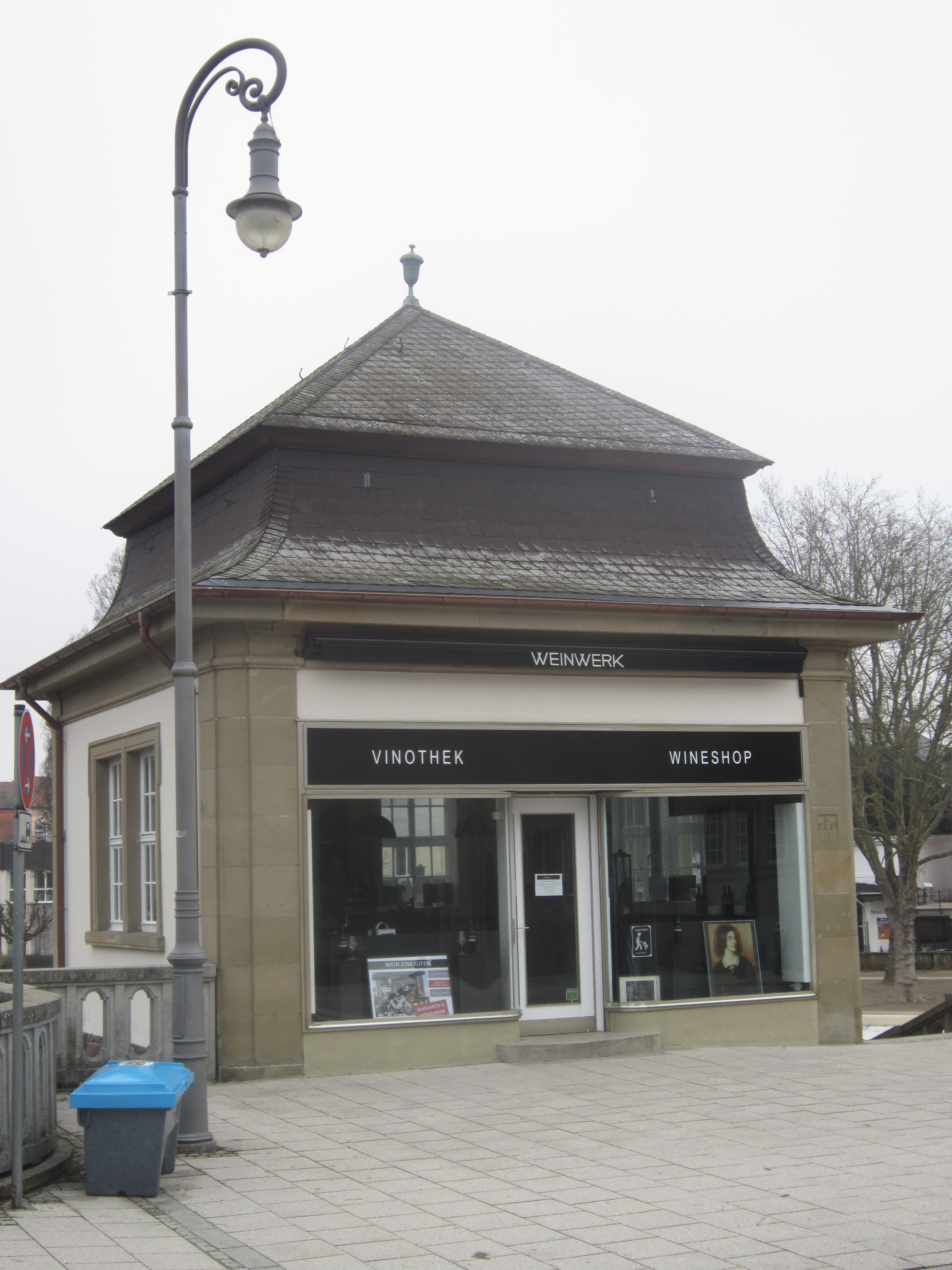 Building in the German spa town of Bad Kissingen in Lower Franconia (Bavaria) (Address: Ludwigstraße 1).